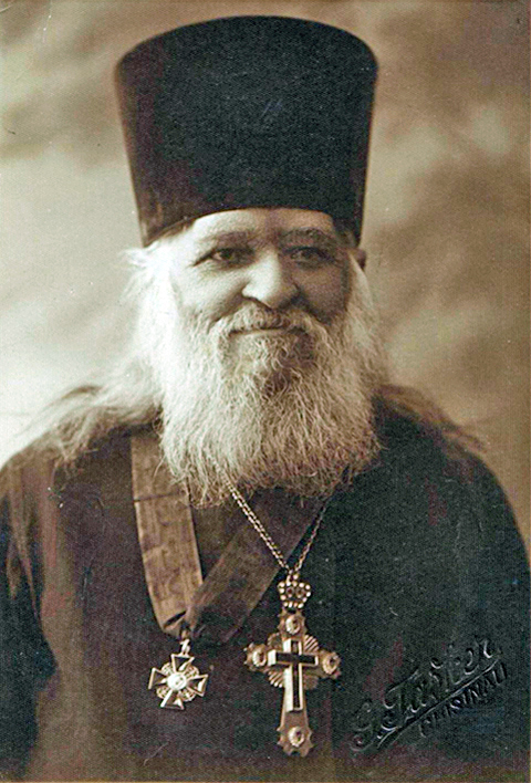 Picture of Mihail Çakir (Mihail Ciachir)